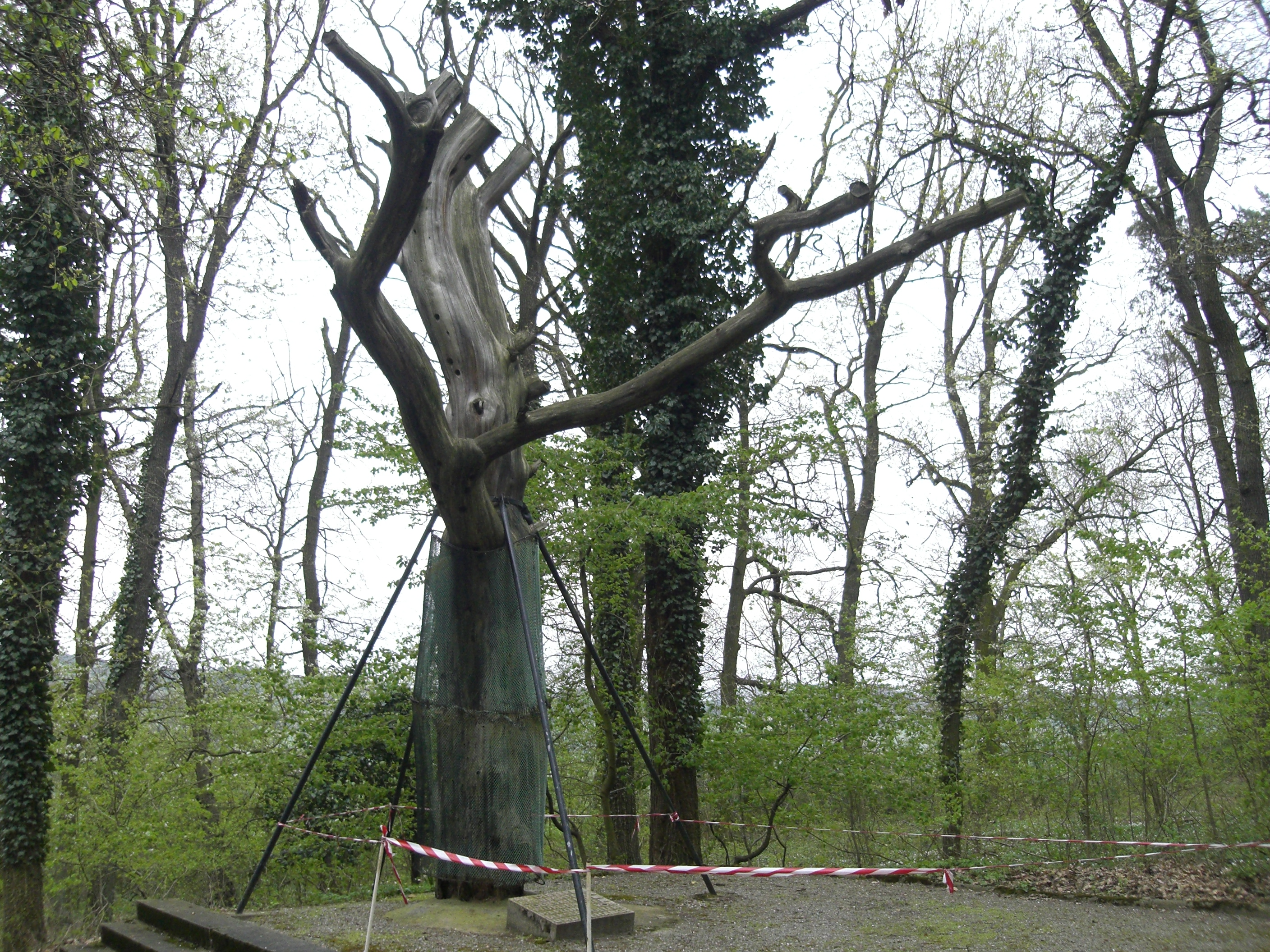 Todeskiefer (Pine tree of Death) at the former Langenstein-Zwieberge concentration camp, used to kill concentration camp inmates. The tree died in the 1960s.